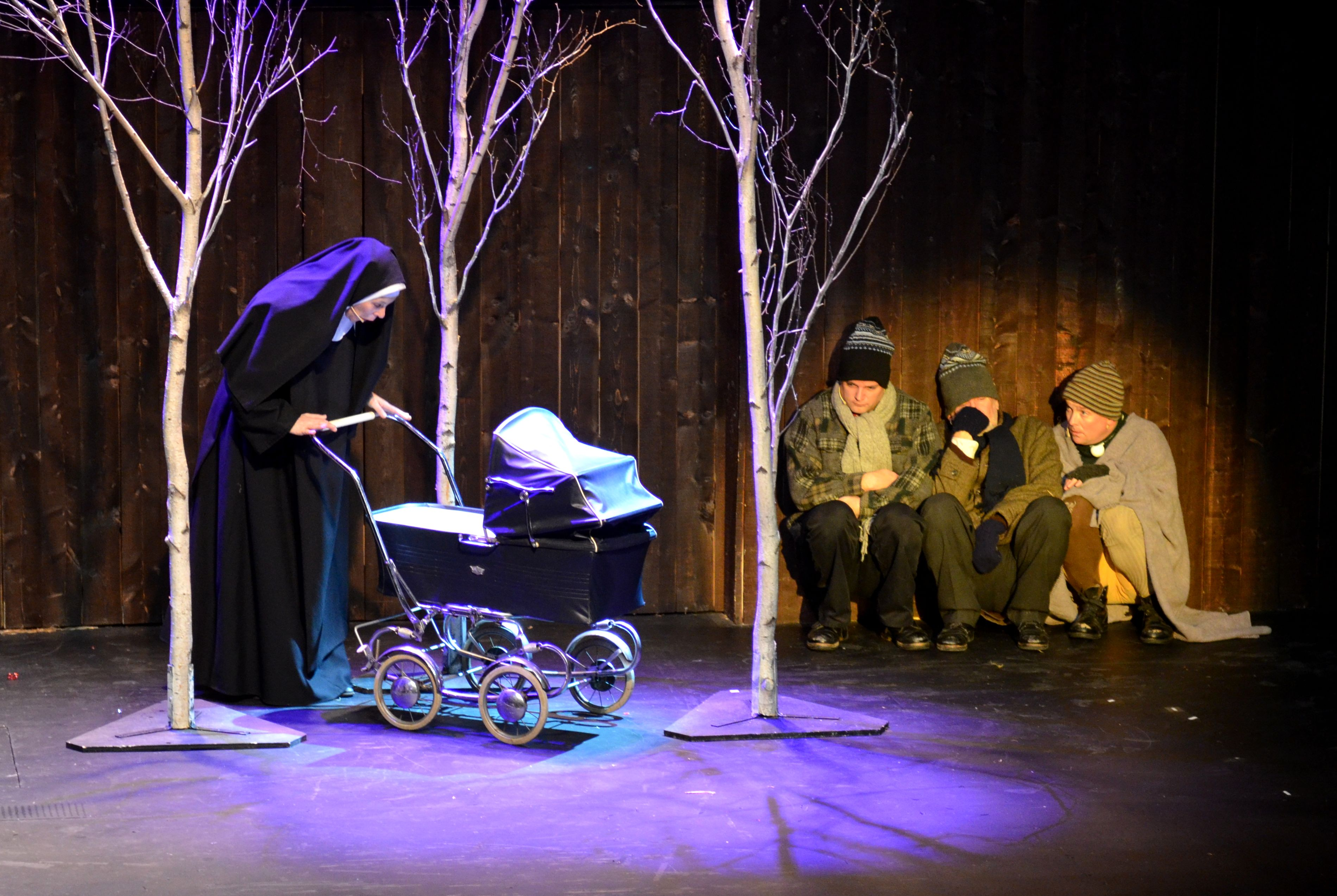 A Christmas show at the Pays de la Sagouine.